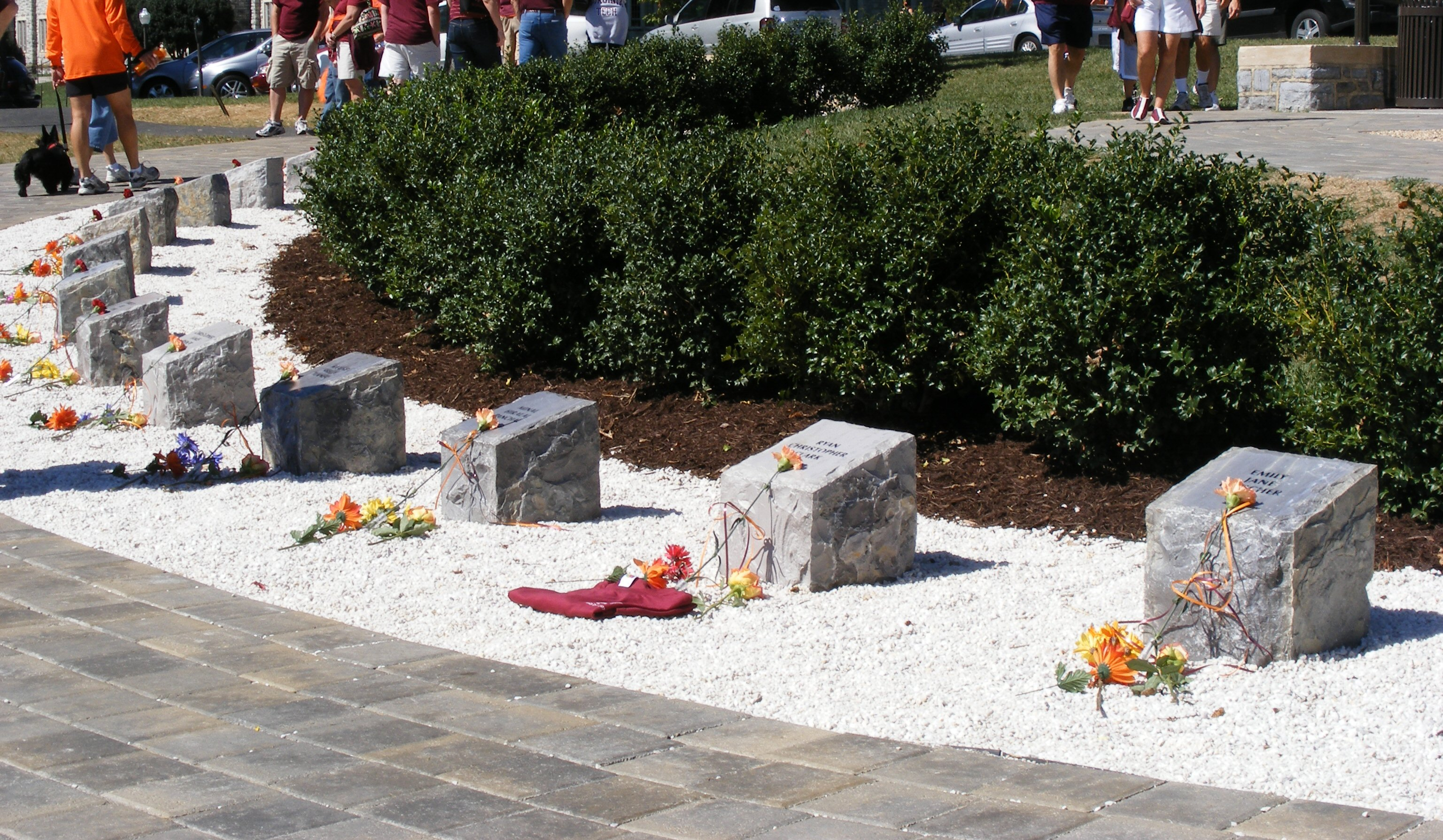 Virginia Tech massacre memorial on the campus of Virginia Tech, photographed at the 2007 Ohio game.